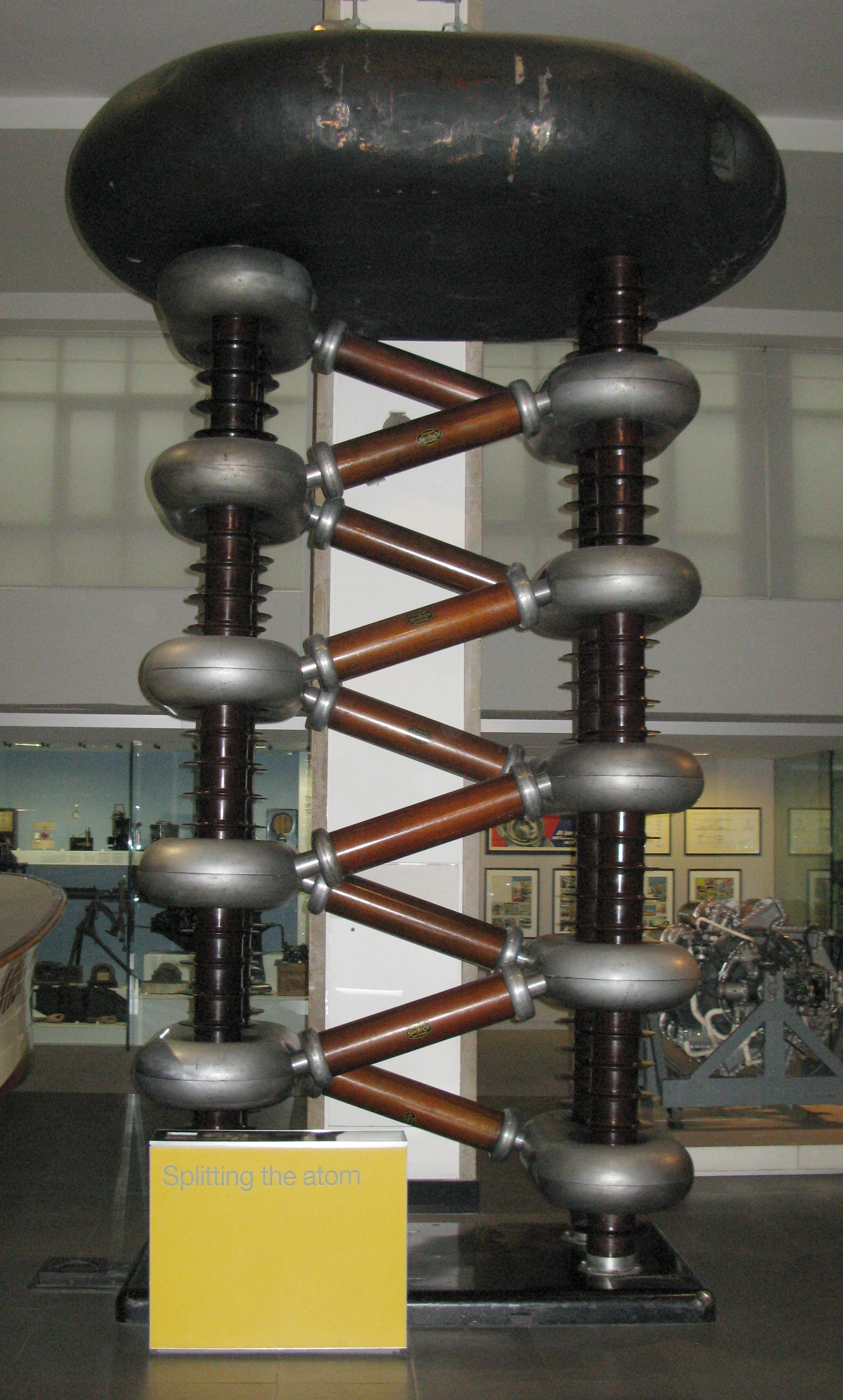 Photo of a Cockcroft–Walton generator in the london science museum